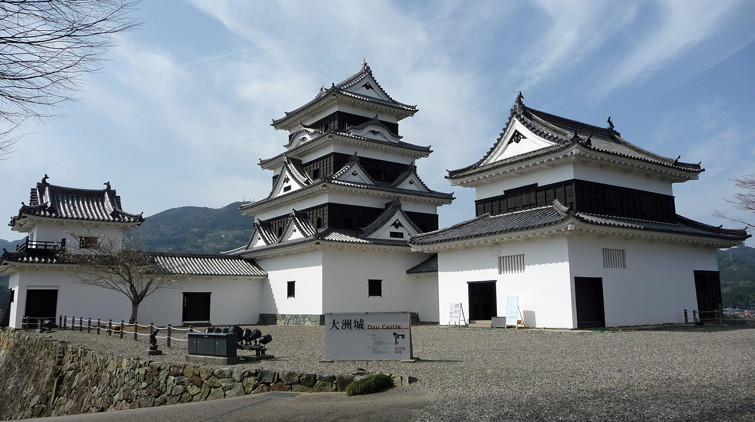 Ozu Castle.